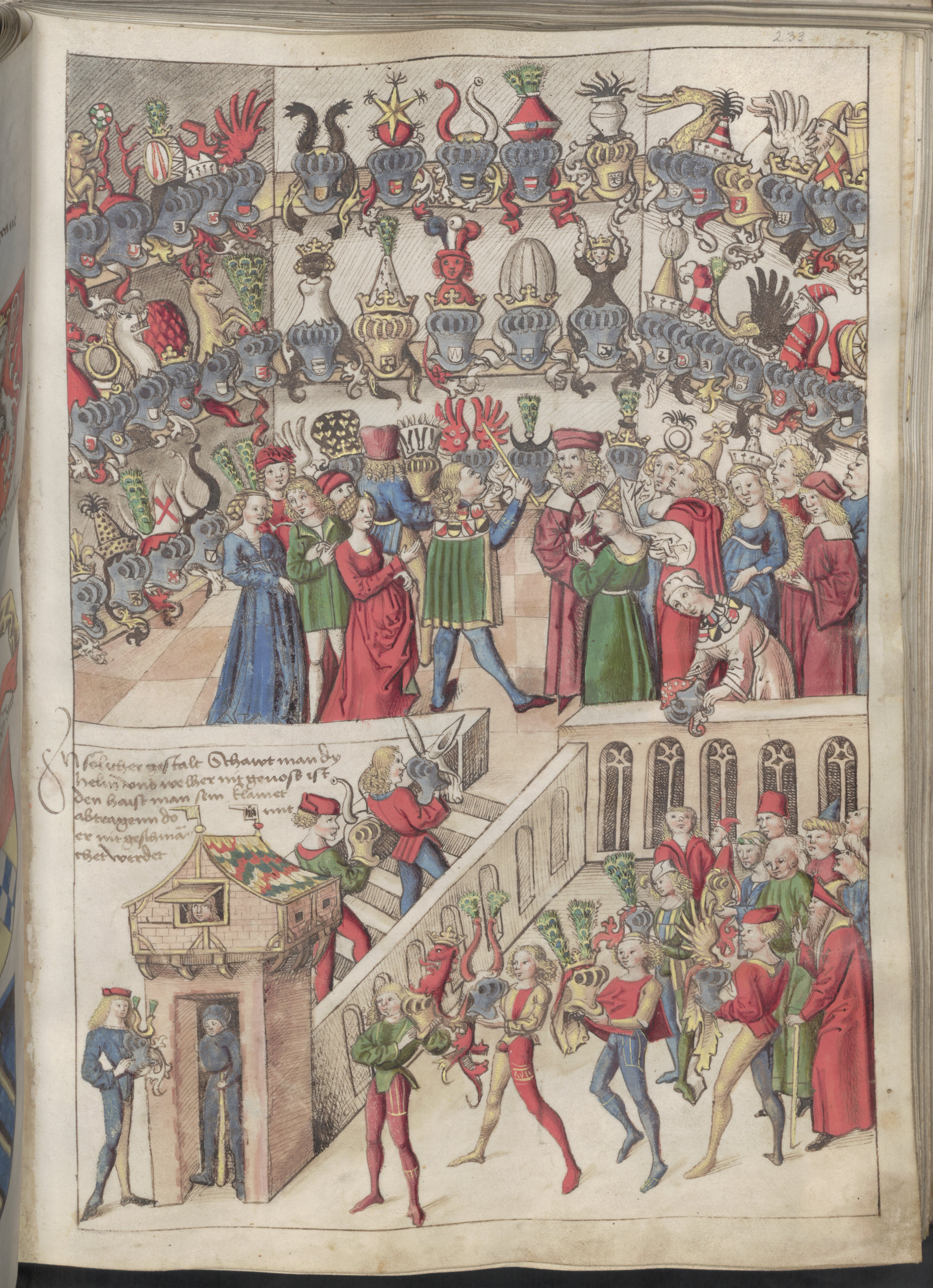 A show of blazoned helmets of knights. Conrad Grunenberg Roll of Arms. 1483